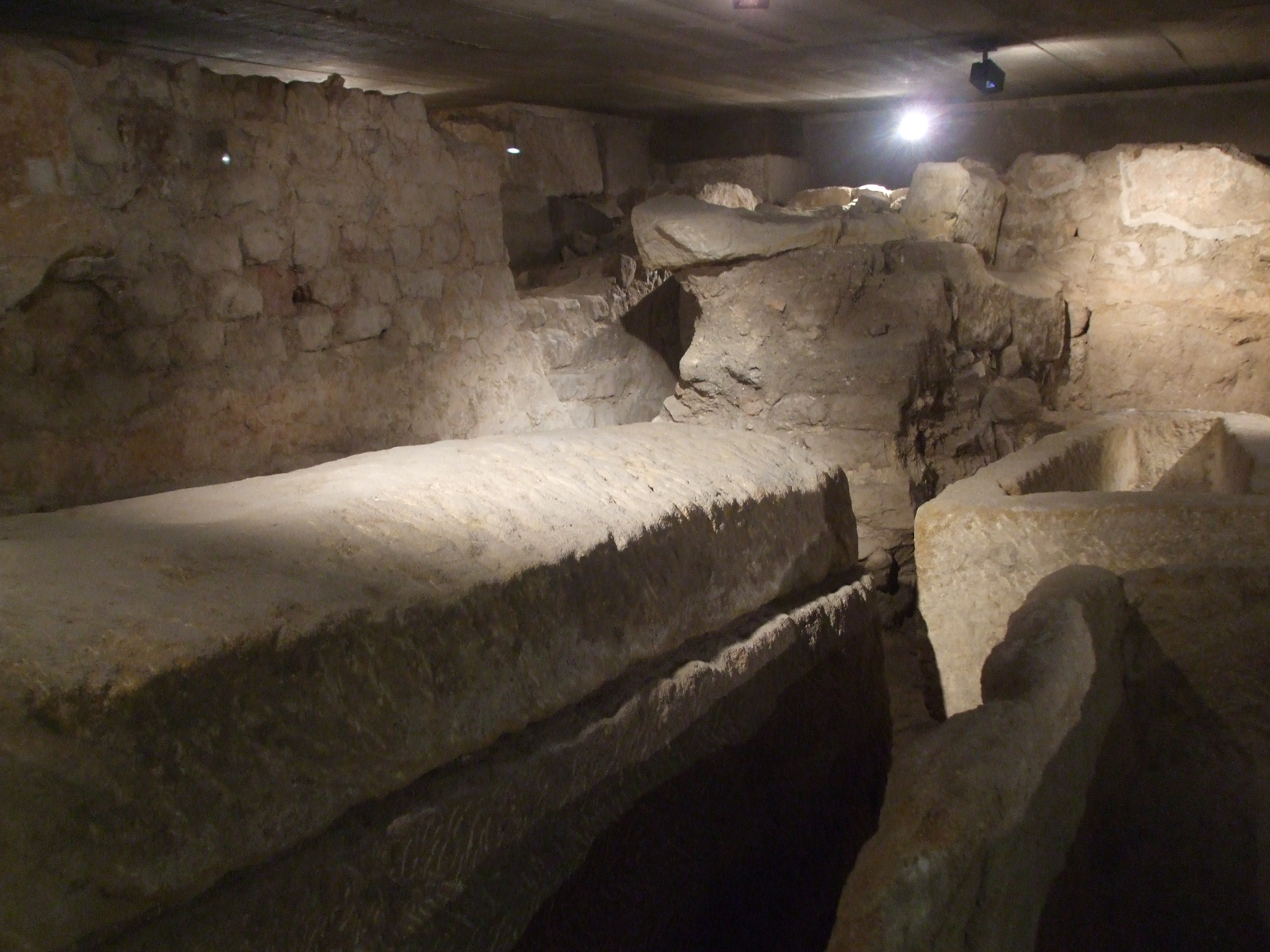 Crypt of the collegiate Saint Martin, Brive la Gaillarde, Corrèze, Limousin, France